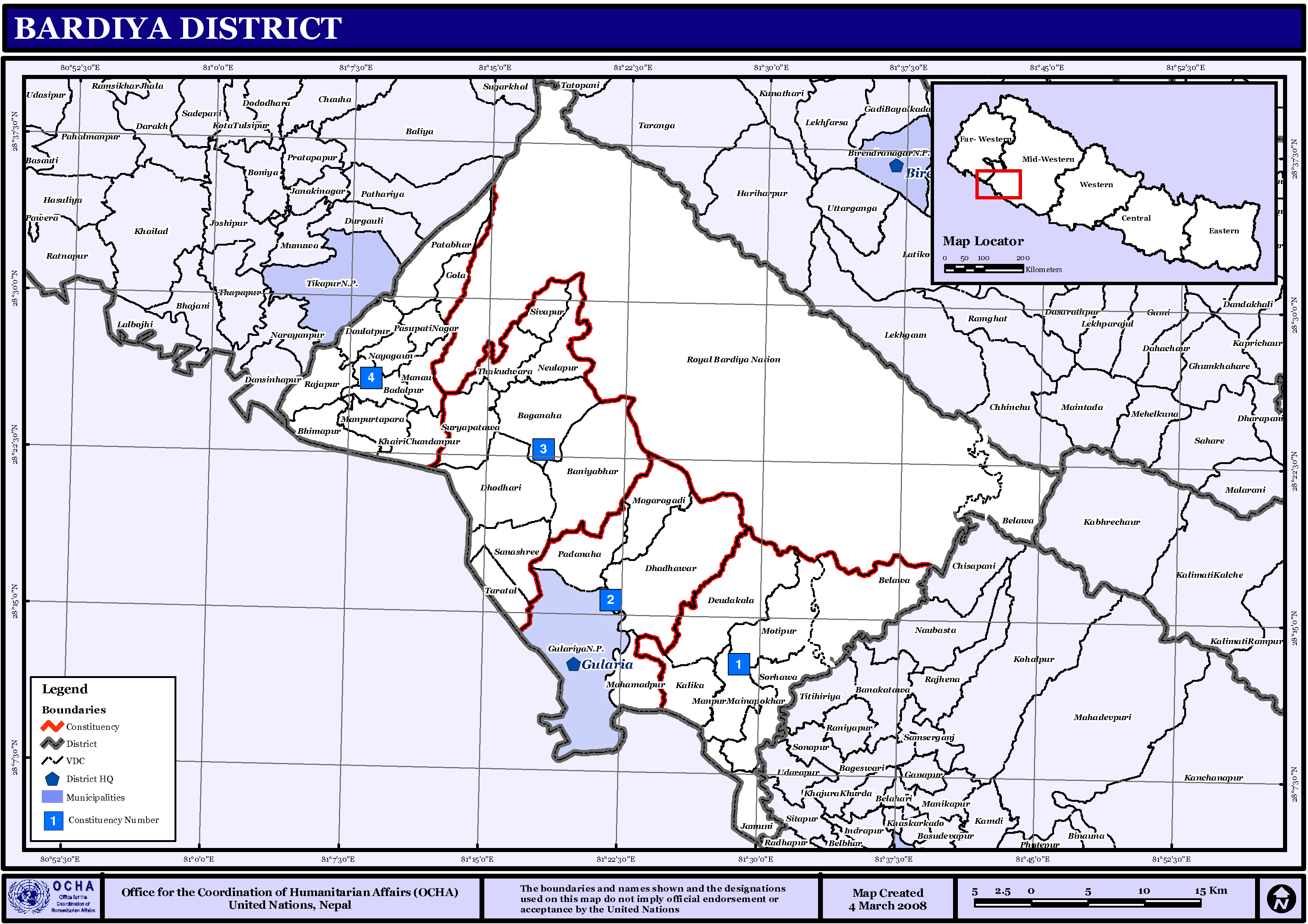 Map displaying Village Development Committees in Bardiya District, Nepal